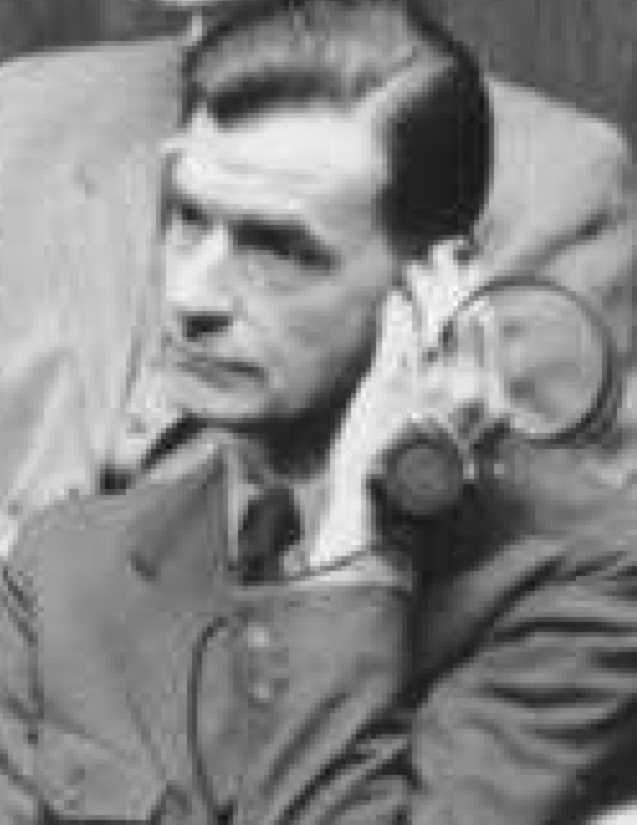 Detail: Ernst Wilhelm Bohle aus dem Foto:[1] The defendants of the Ministries Trial sit in the dock. [Photograph #66035]